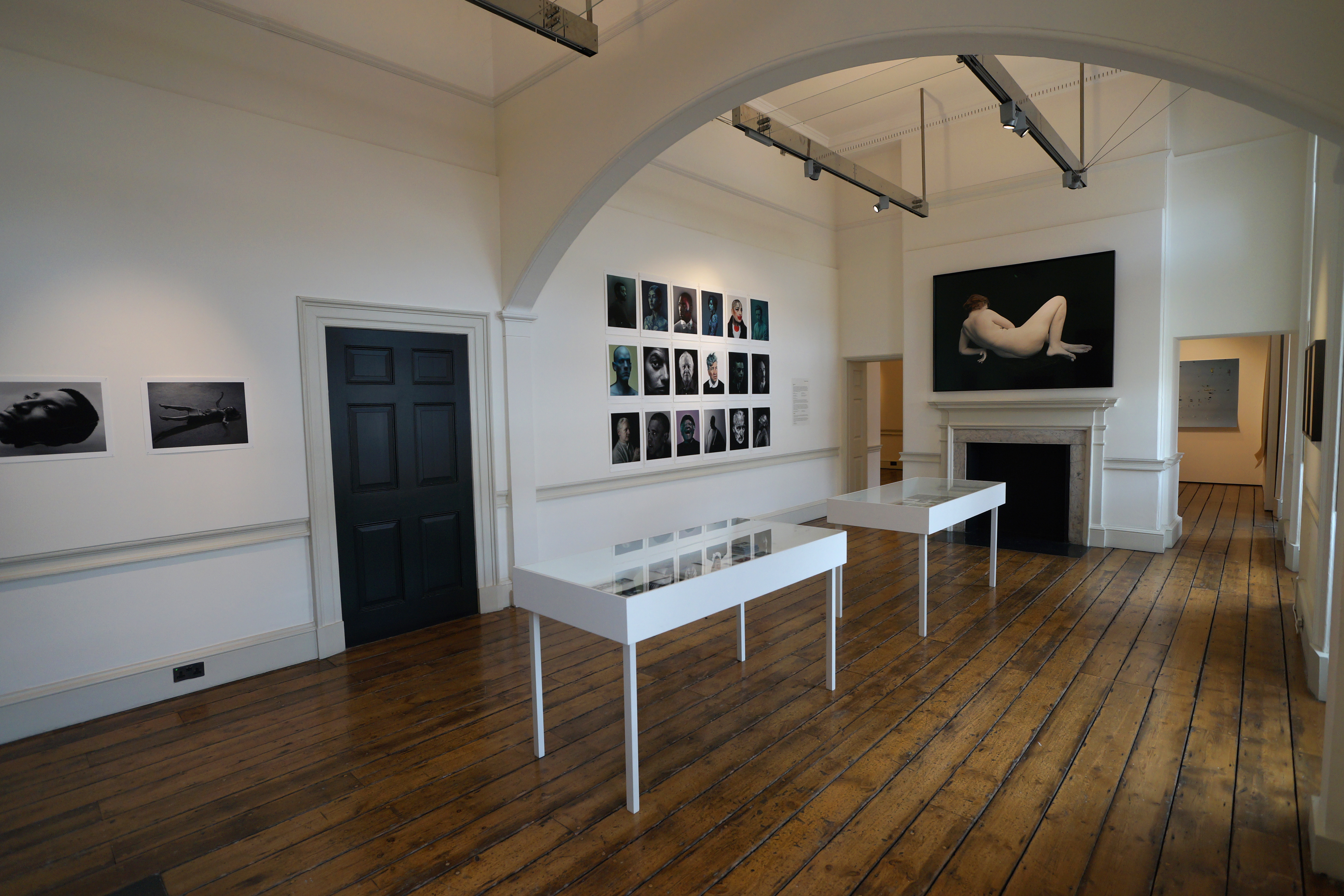 A unique curation of images by the Awards’ 2019 Outstanding Contribution to Photography recipient Nadav Kander was exhibited in the East Wing Gallery at Somerset House.